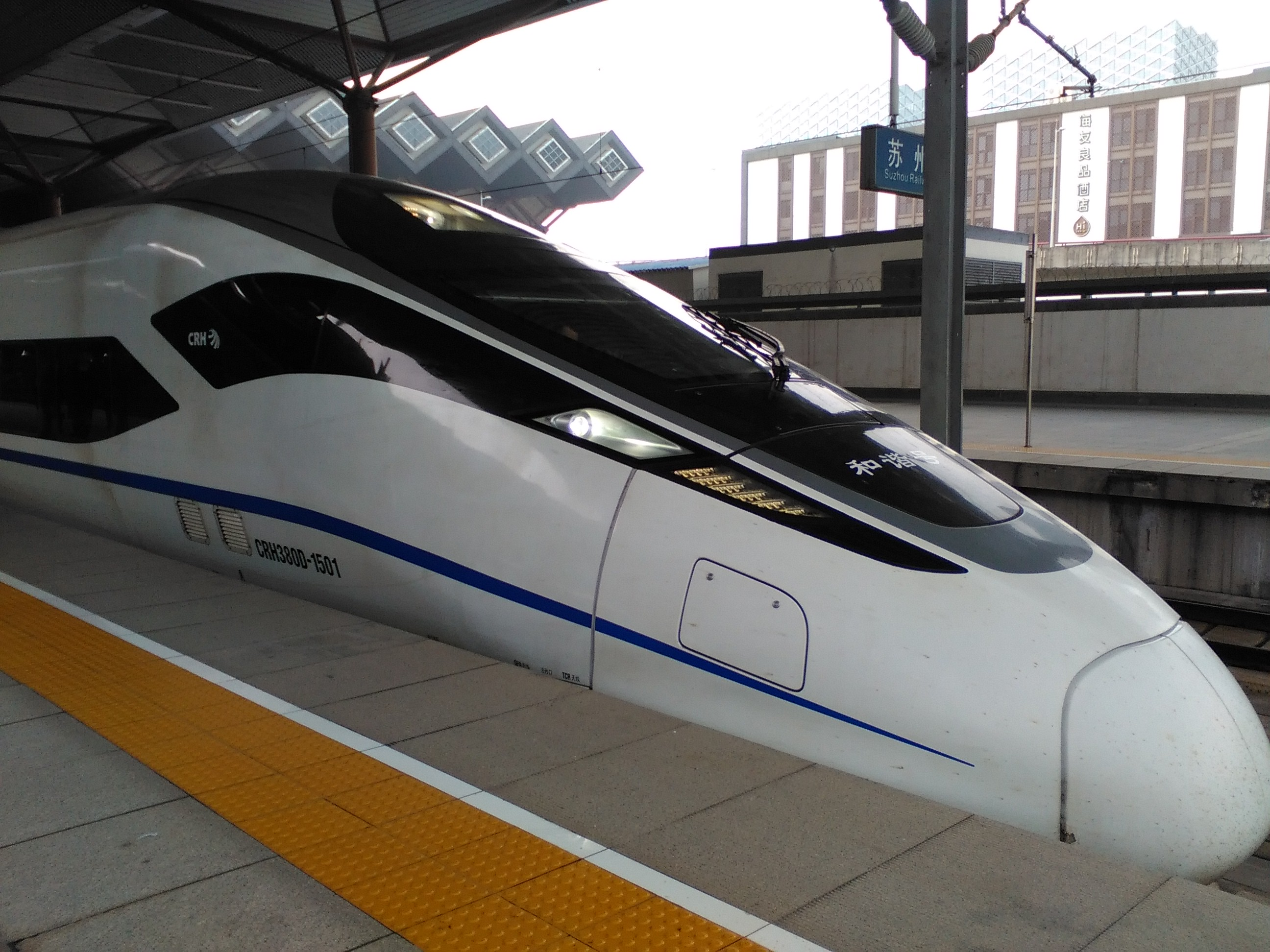 CRH380D at Suzhou Railway Station on March 25, 2017. This train was served as G7015, from Nanjing towards Shanghai. 中文（中国大陆）: 2017年3月25日，CRH380D停靠于苏州火车站，担当由南京开往上海的G7015次列车。